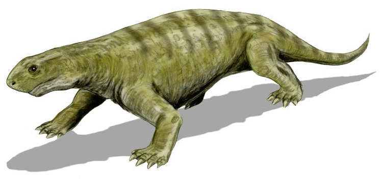 Ennatosaurus tecton, a caseasaur from the Late Permian of Russia, after skeletal reconstruction from [1] pencil drawing